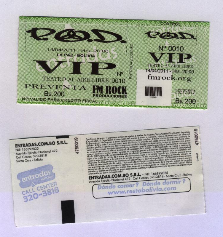 Concert ticket for Payable On Death in La Paz, Bolivia, April 14, 2011.